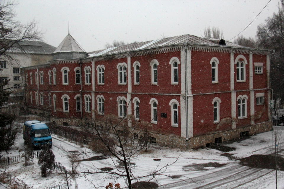 An old hospital building in Bishkek